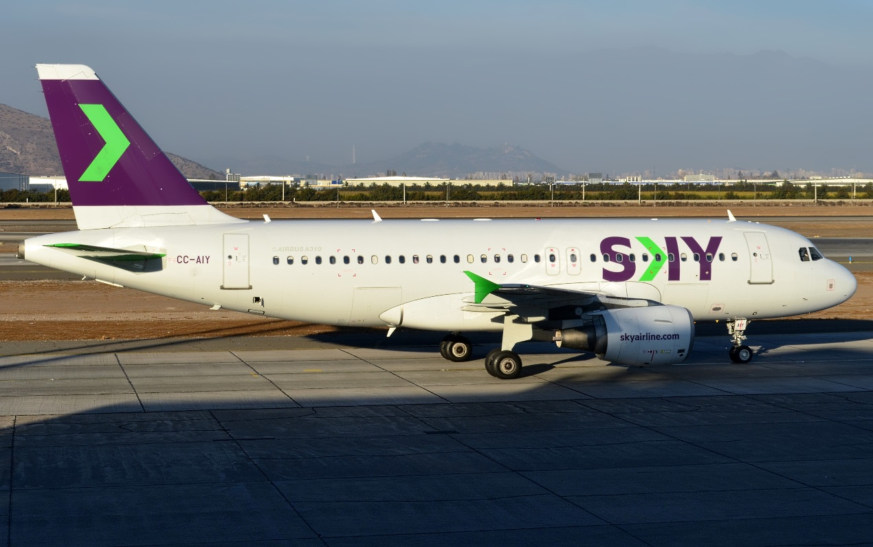 CC-AIY en taxeo